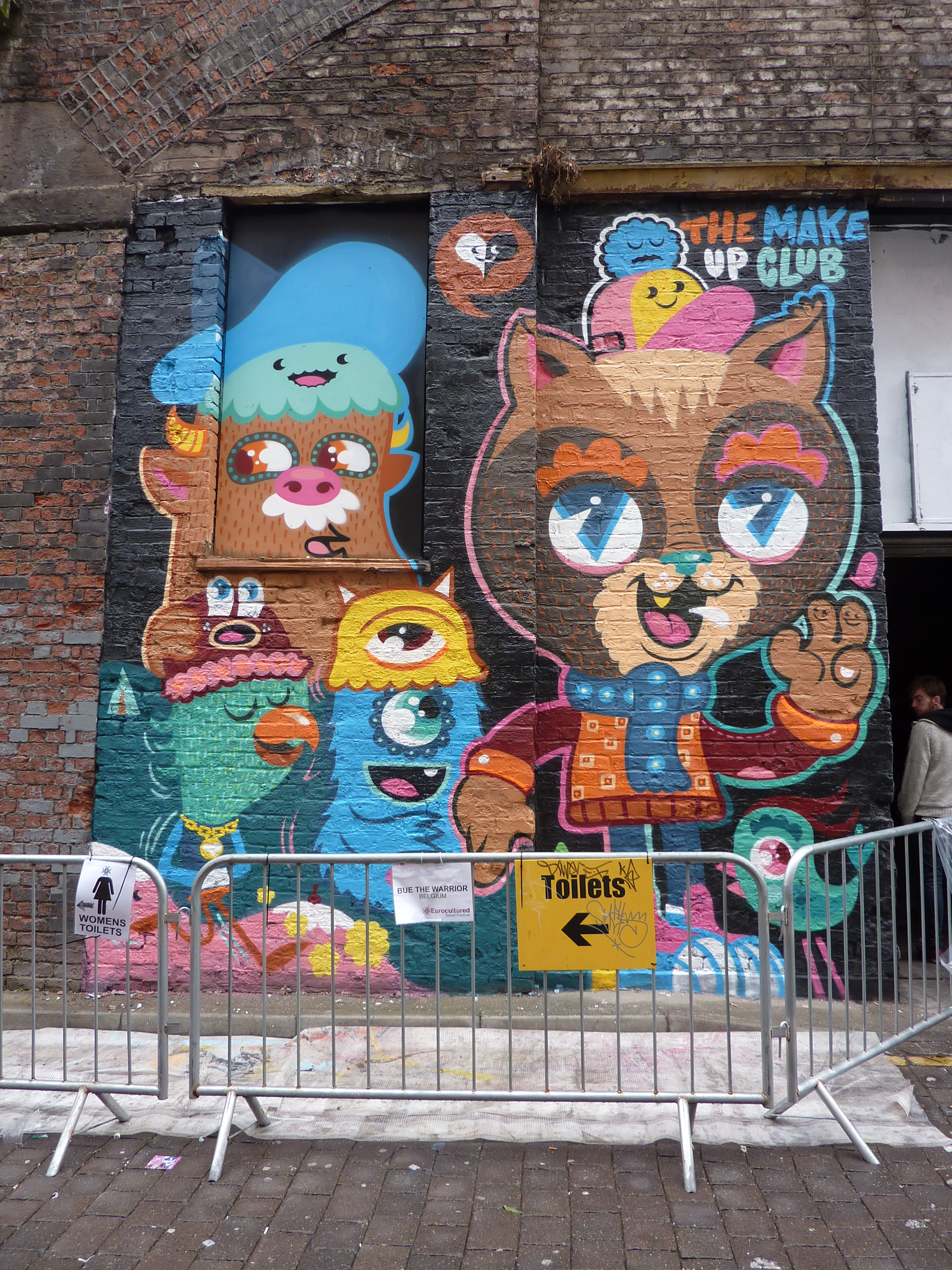 Bue The Warrior: The Make Up Club